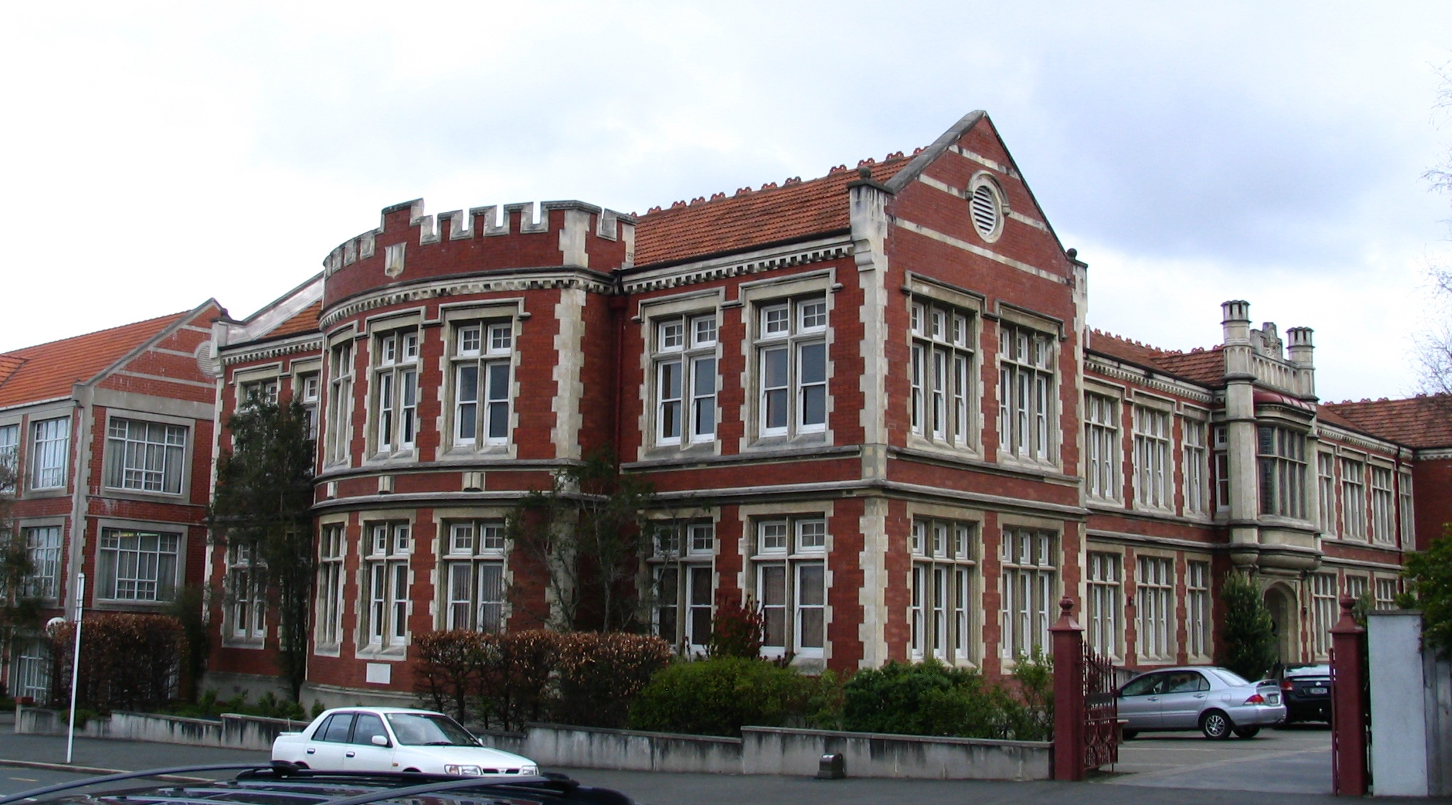 Otago Girls High School main block building, Dunedin, New Zealand